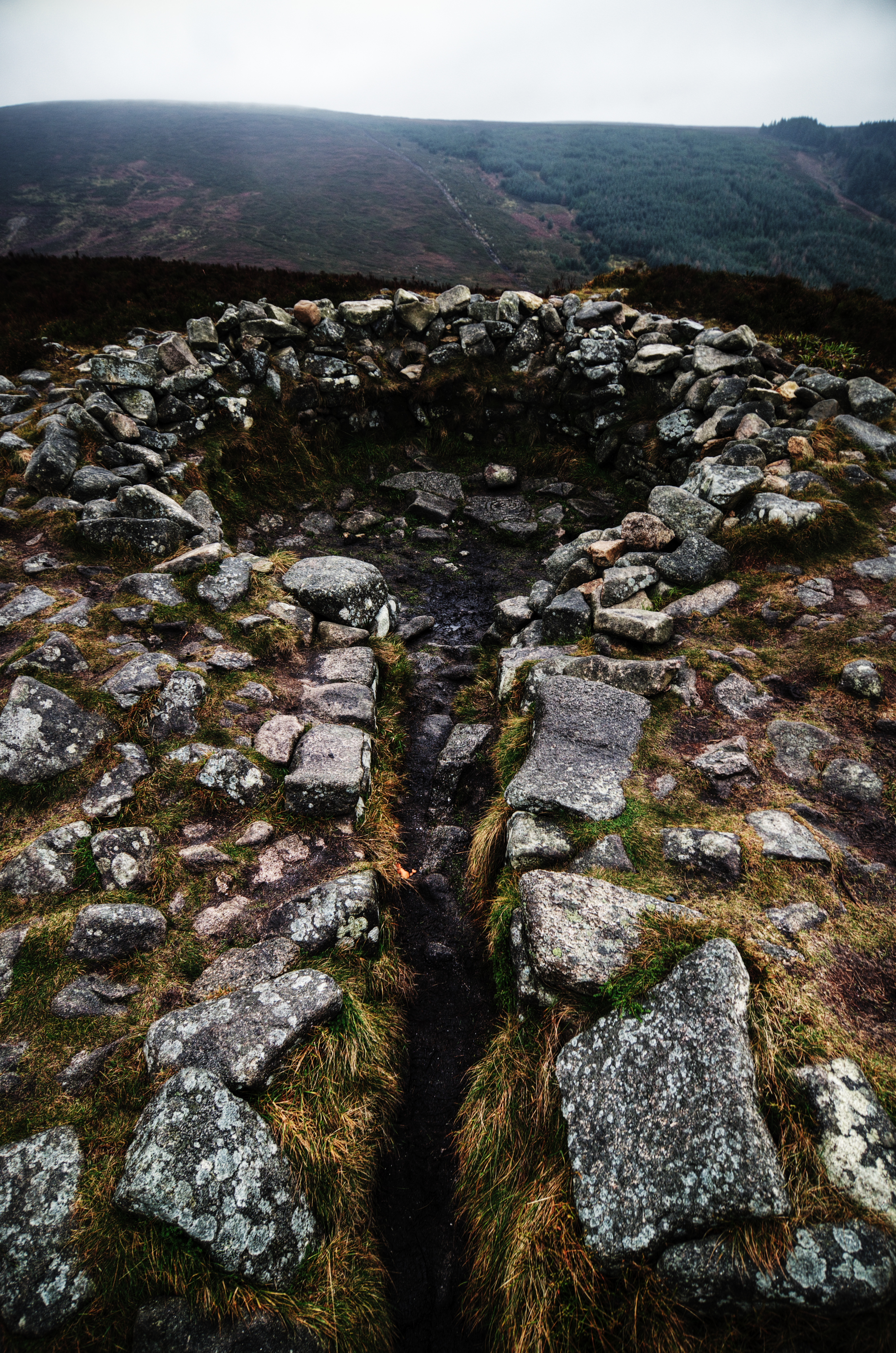 Tibradden Cairn was reconstructed as a pseudo-passage tomb following its excavation in 1849. Its original form was likely a kist, with a cairn of stones on top.